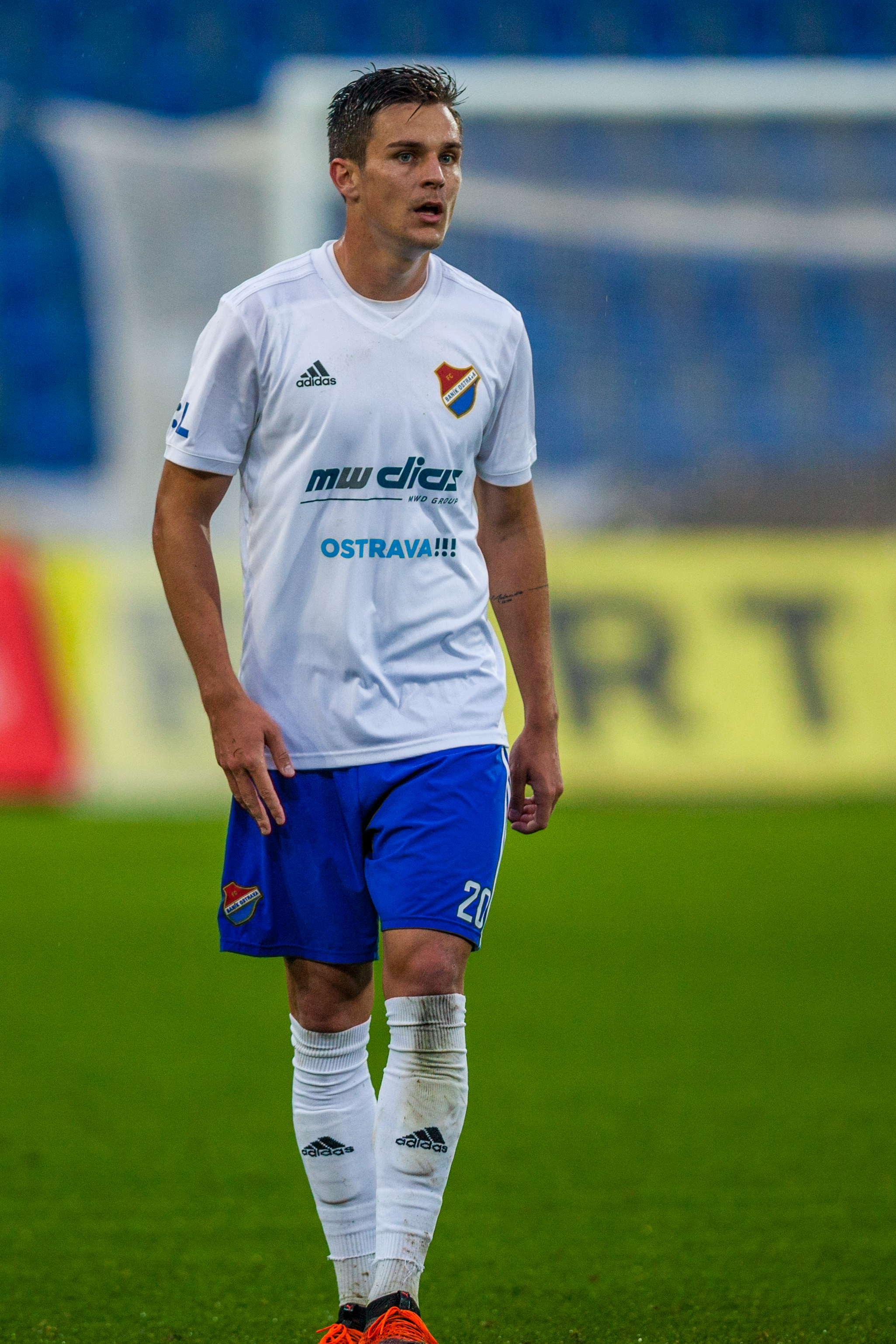 Jakub Pokorný in a Czech First League (Fortuna:Liga) match between FC Baník Ostrava and FC Fastav Zlín (4:0), 5 October 2019, Městský stadion Ostrava, Ostrava-Vítkovice, Ostrava-City District, Moravian-Silesian Region, Czechia Personality rights warningAlthough this work is freely licensed or in the public domain, the person(s) shown may have rights that legally restrict certain re-uses unless those depicted consent to such uses. In these cases, a model release or other evidence of consent could protect you from infringement claims.